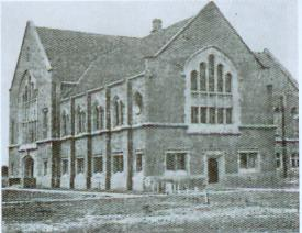 Auditoriumand_and_White_Chapel